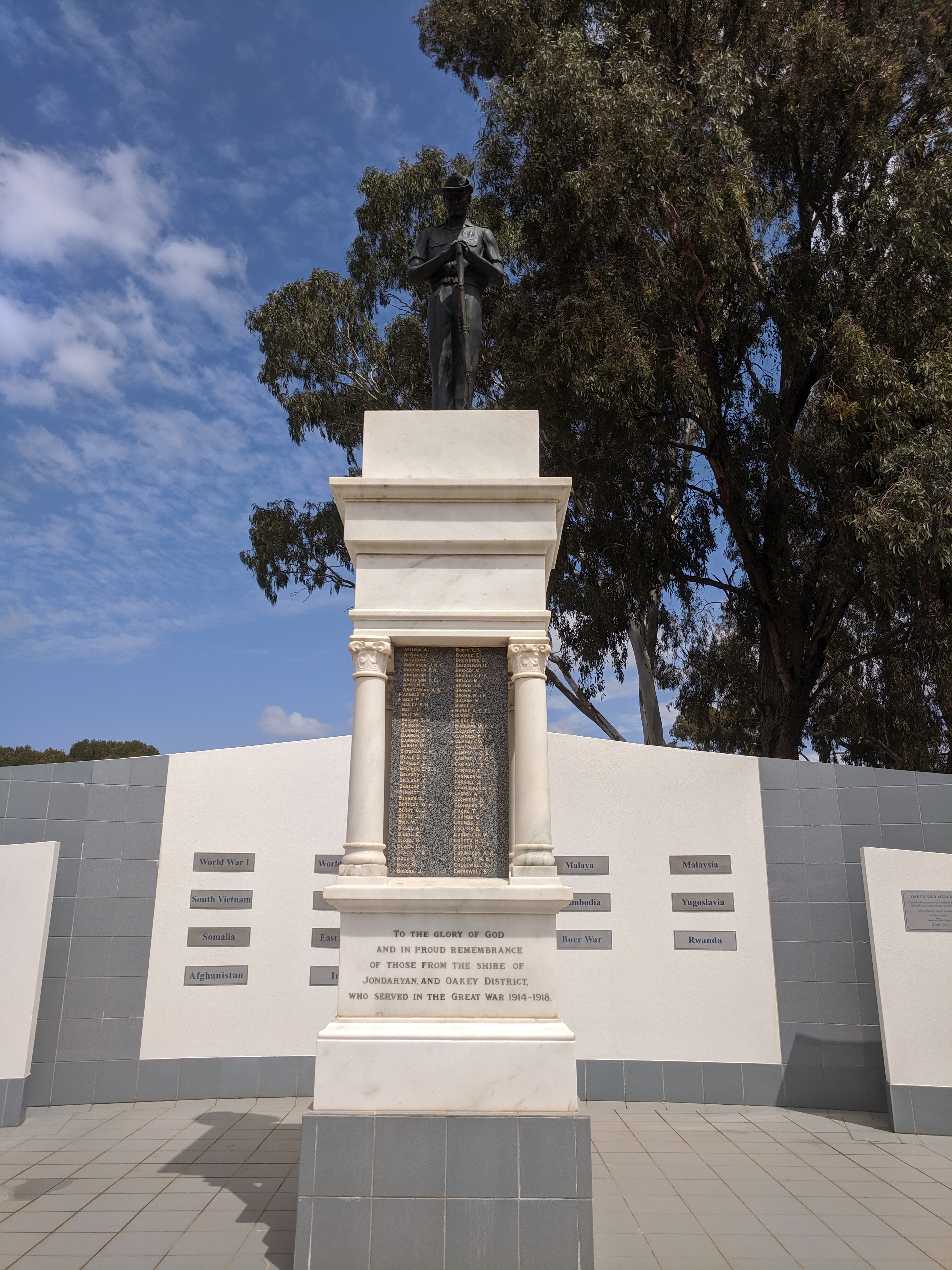 The War Memorial in Oakey, Queensland, Australia, built to commemorate the First World War and inscribed with the names of over 300 locals who served in the war.